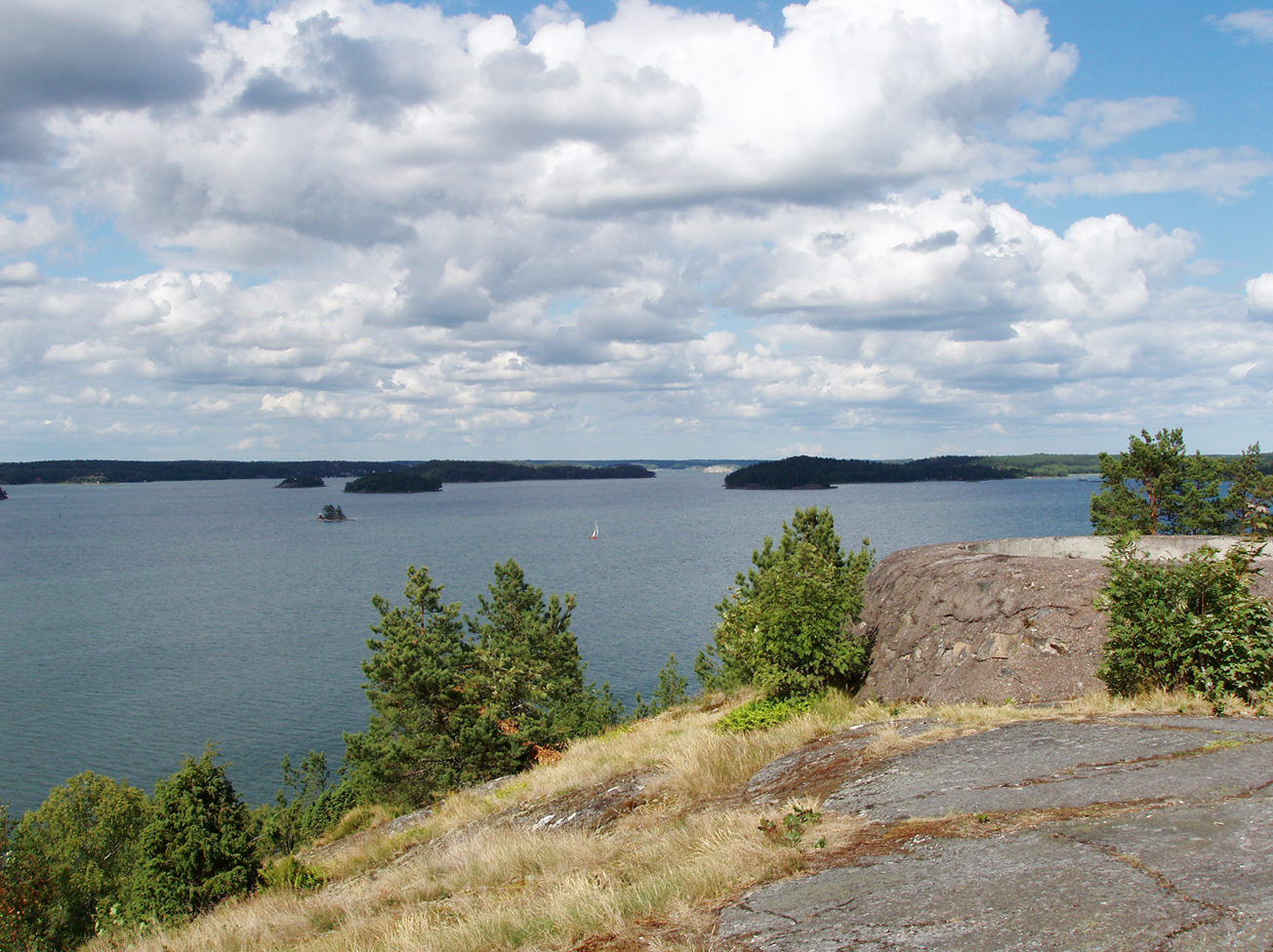 View from "Ljusterö huvud", 52 meter above see level, at the island of Ljusterö. View towards north along Furusundsleden.